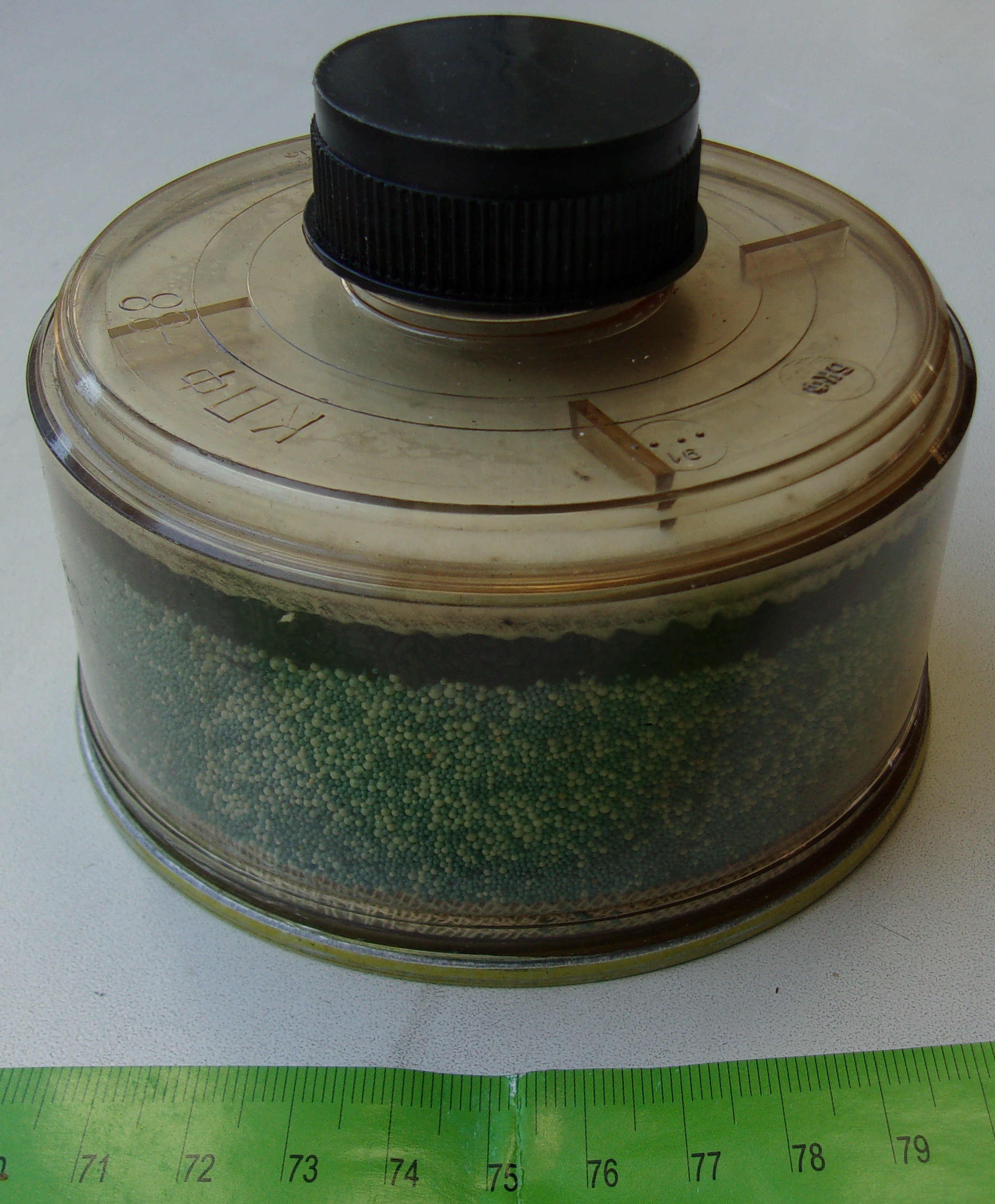 Combined gas and particulate respirator filter for protection against acid gases, the type of BKF (БКФ). It has transparent body and special sorbent that changes color after the saturation. This color change may be used for timely replacement of respirators' filters (like End of Service Life Indicator ESLI). The filter is made, presumably, in the city of Dzerzhinsk, Nizhny Novgorod region (RF).